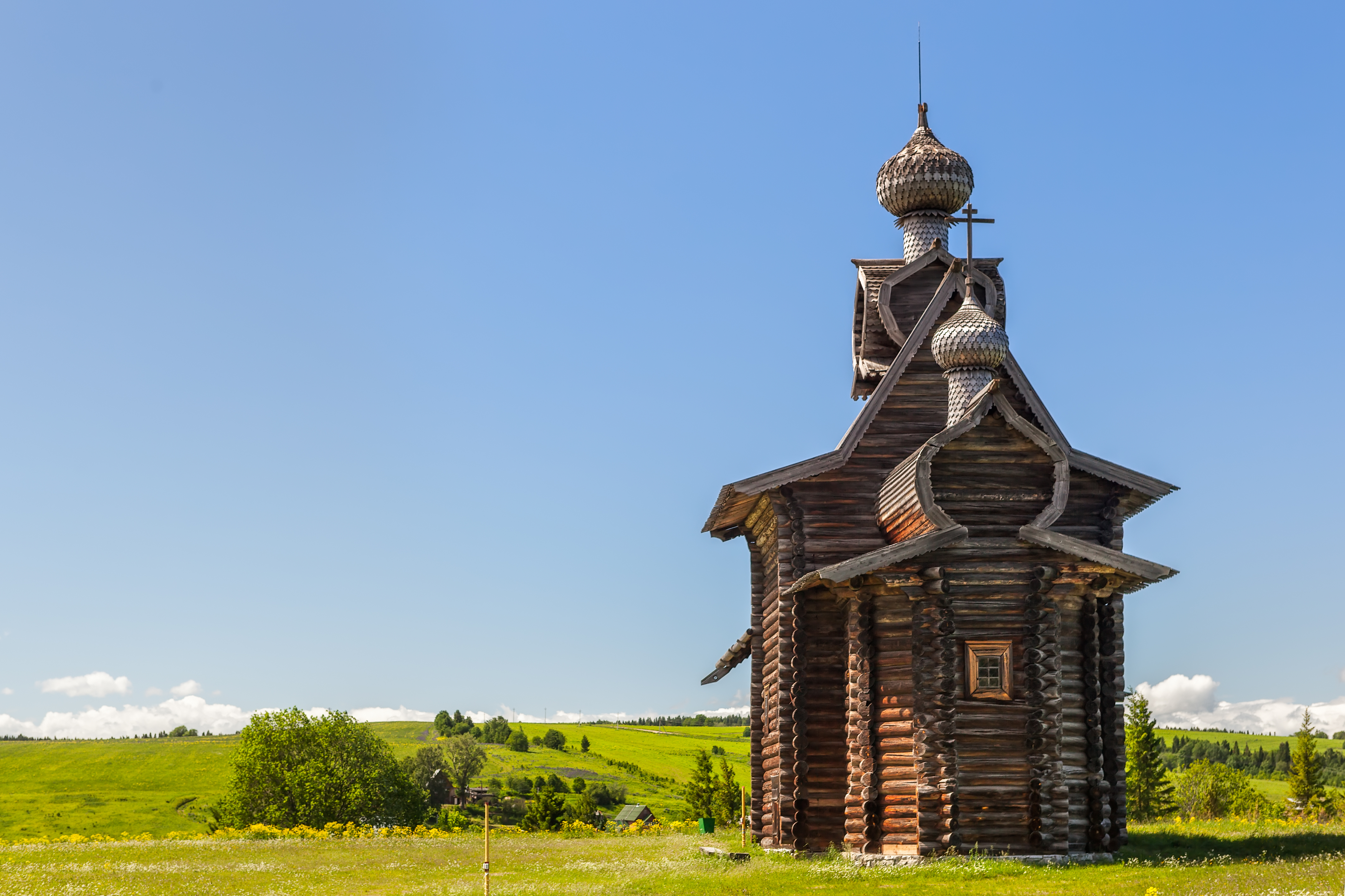 Church of Transfiguration (1707) in open air Architectural-ethnographic museum "Khokhlovka", Perm krai, Russian Federation